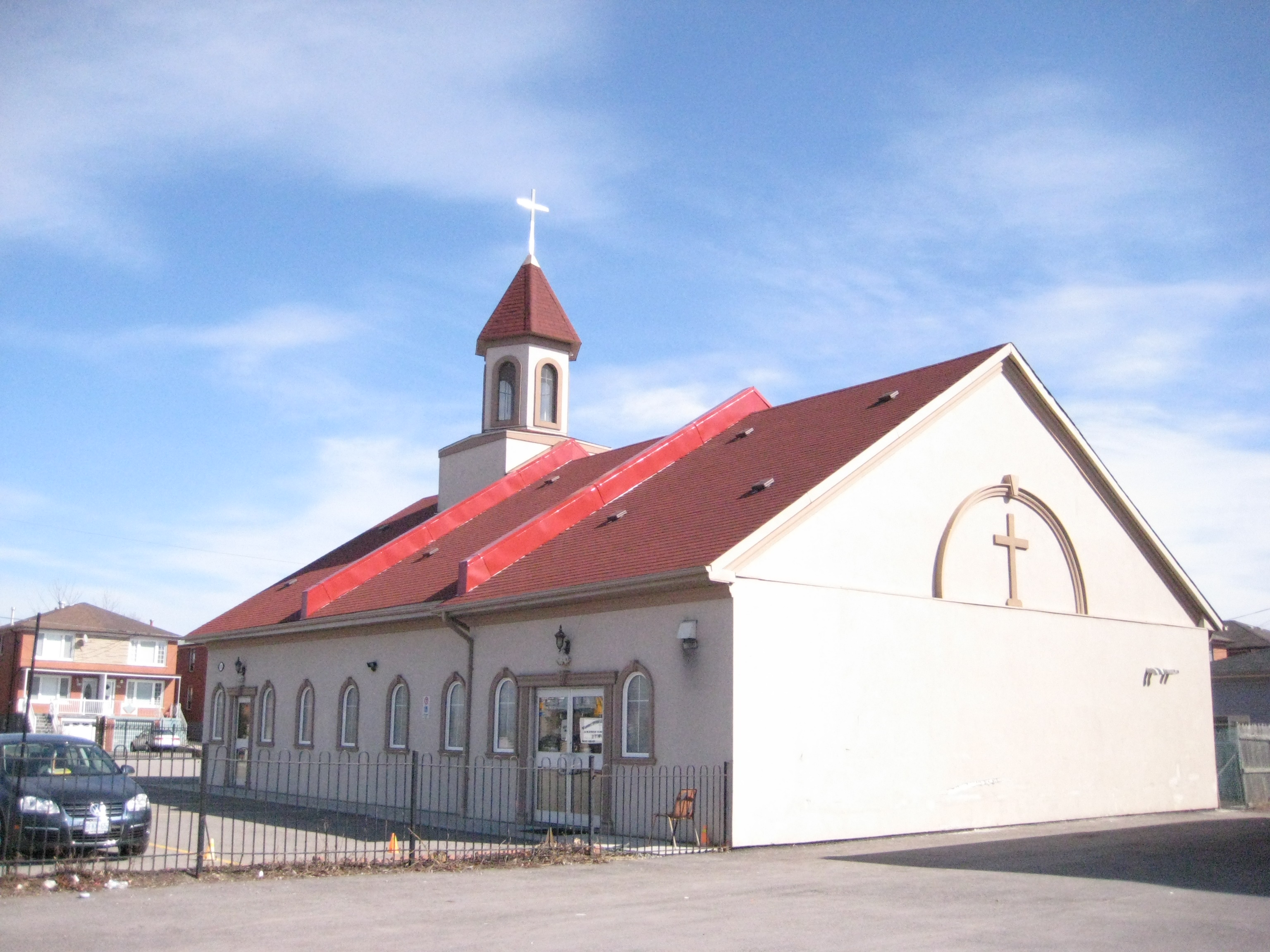 All Saints Romanian Orthodox Church, Toronto